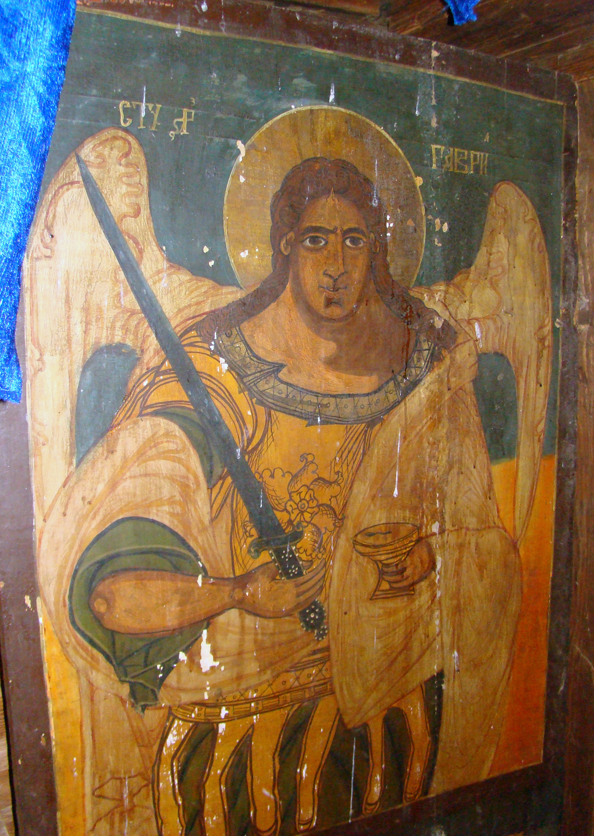 Wooden church in Pârvulești, Gorj county, Romania